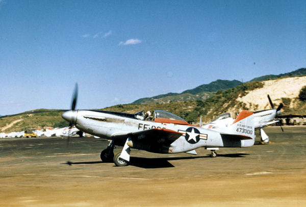 USAF F-51 in Korea Source: USAF Museum photo